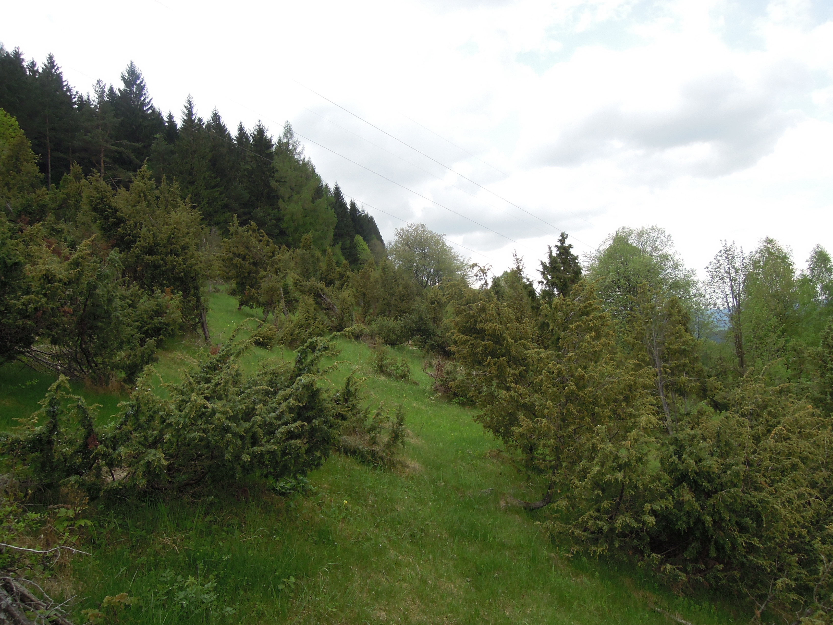 Uherská natural monument in Zděchov, Vsetín District, Zlín Region, Czech Republic